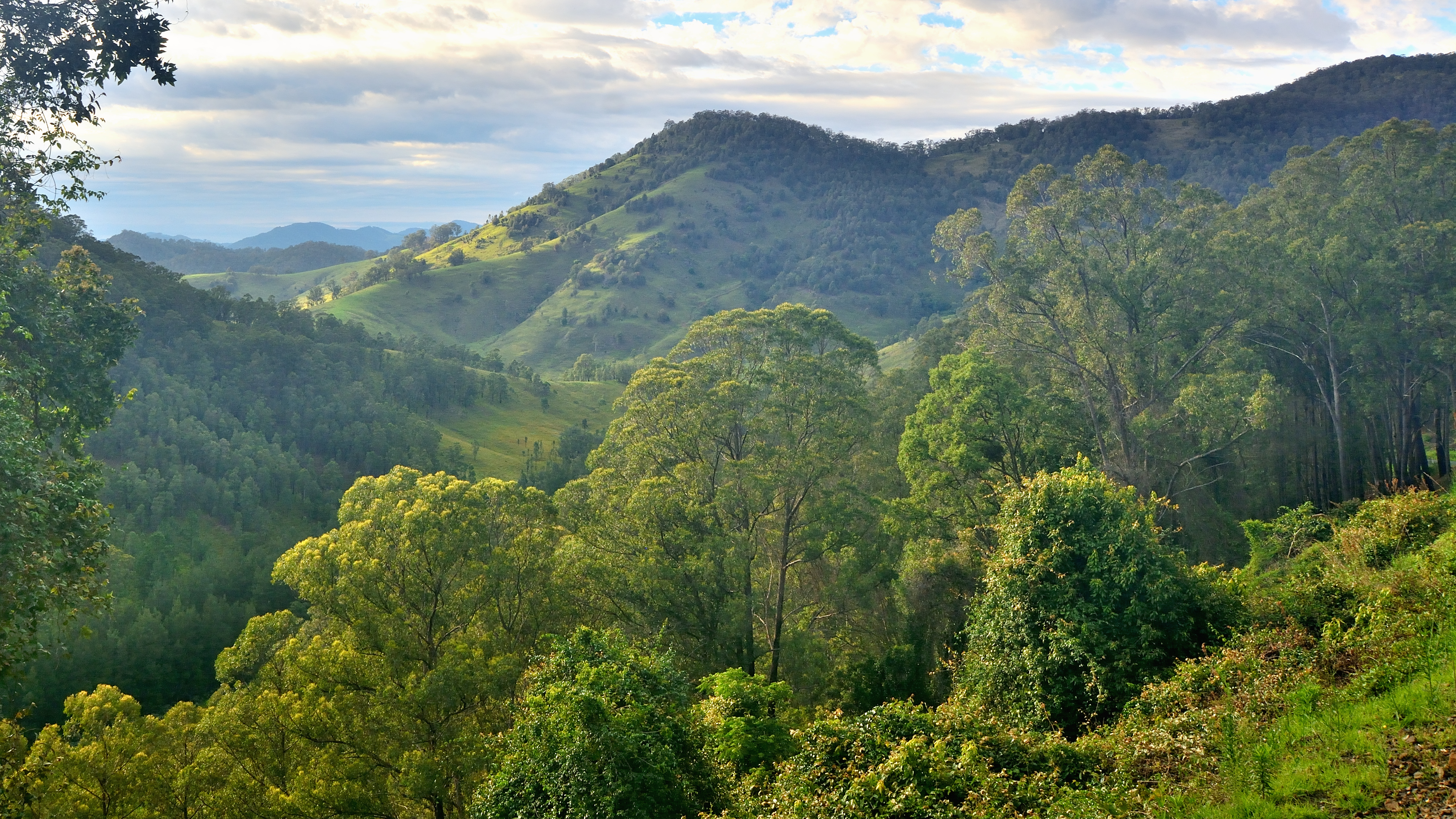 A view into the Hunter Valley in Barrington Tops National Park on a December morning.